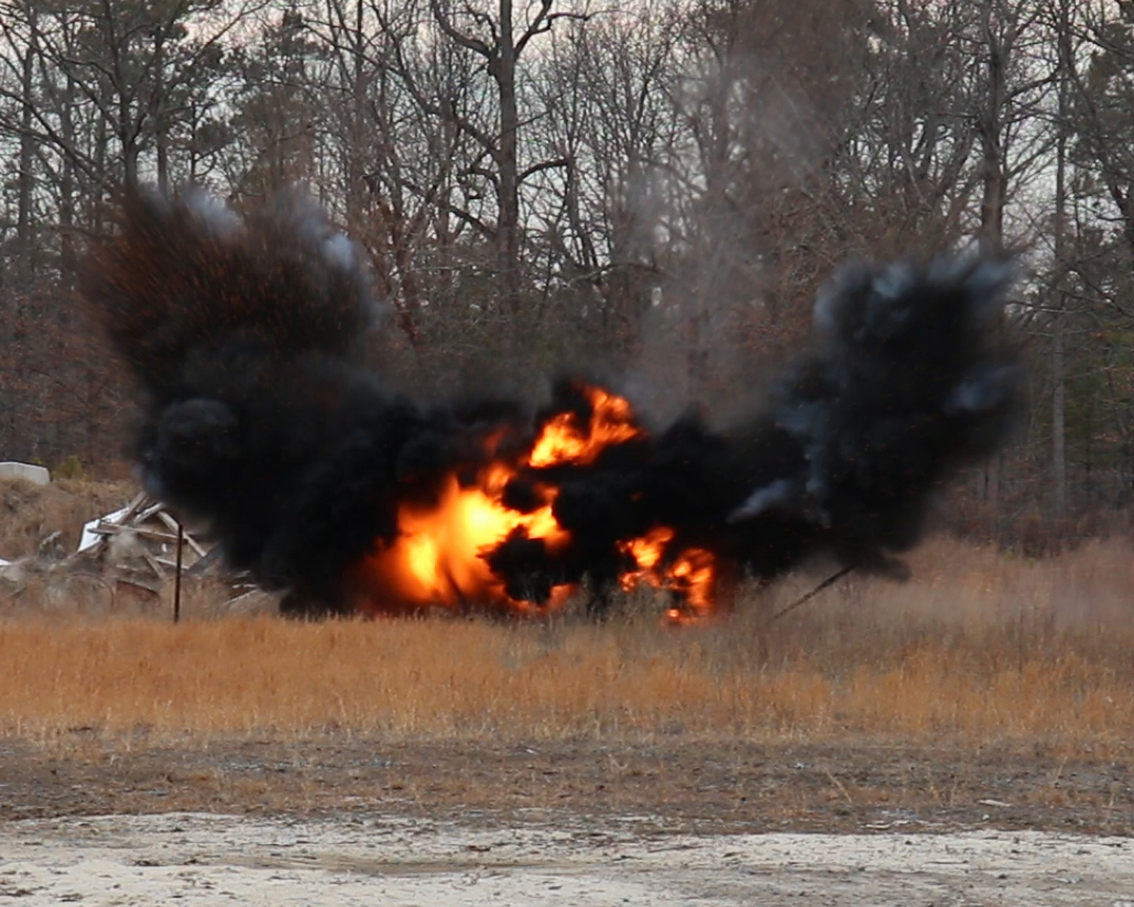 Sappers assigned to the Virginia Army National Guard’s Company A, 116th Brigade Special Troops Battalion, 116th Infantry Regiment, 116th Infantry Brigade Combat Team, detonate a Bangalore torpedo to destroy a concertina wire obstacle during a field expedient demolitions range Feb. 6, 2015, at Fort A.P. Hill, Va. (U.S. Army National Guard photo by Capt. Andrew J. Czaplicki)